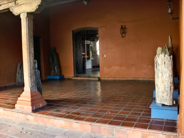 Manzana de la Rivera Museum